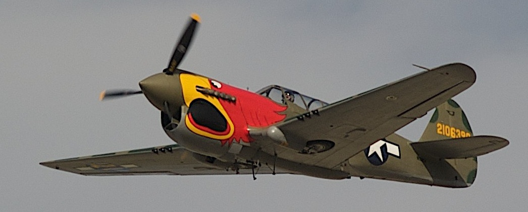 P-40N-15CU 42-106396 Parrot Head from the Warhawk Air Museum, Nampa, ID.